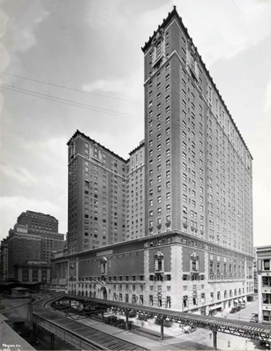 View looking northwest toward Commodore Hotel at corner of E. 42nd Street and Lexington Avenue, New York City, 1921